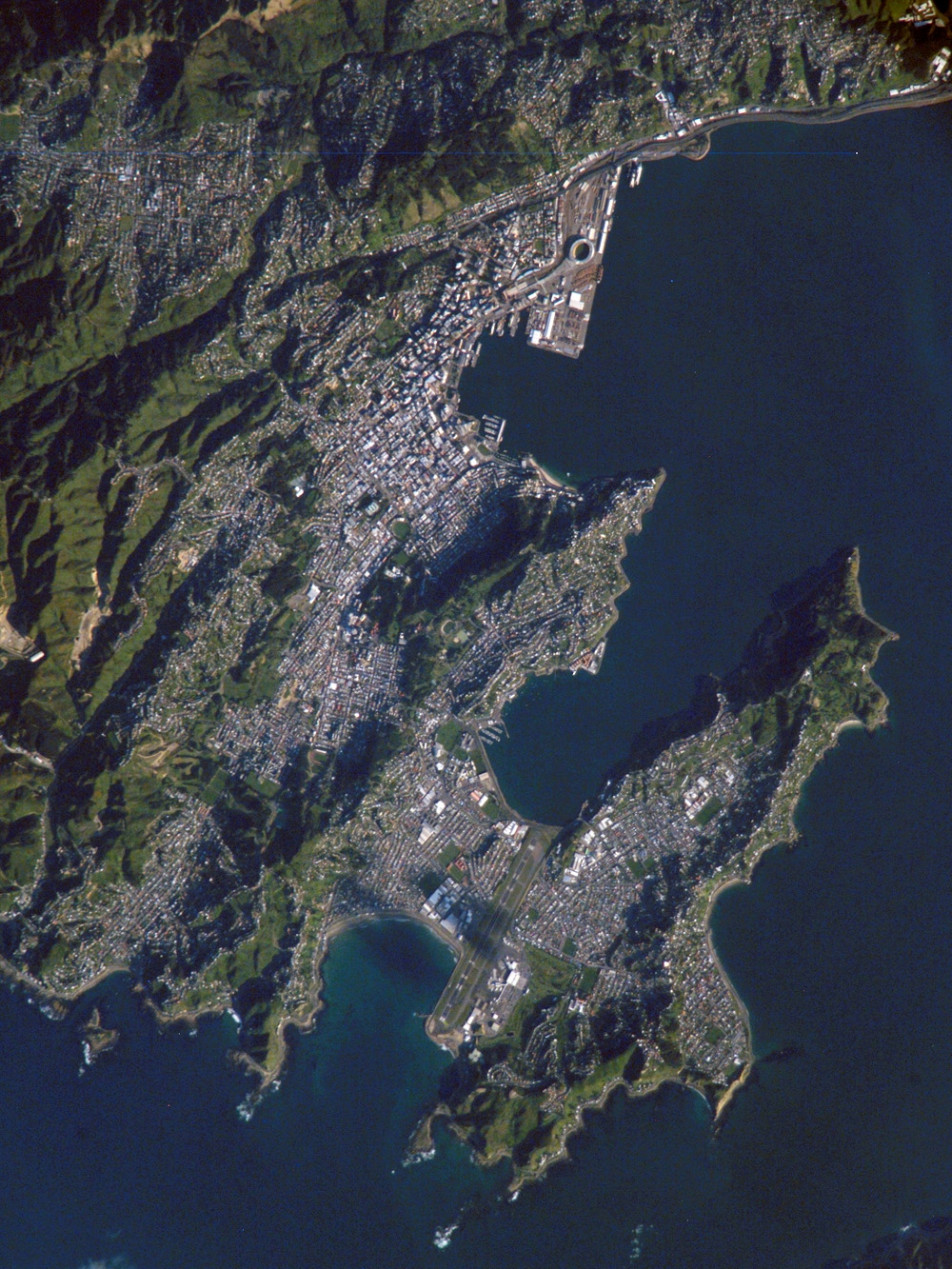 Astronaut's photo of Wellington, New Zealand. North roughly at top of image.